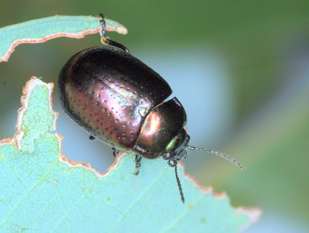 Chrysolina quadrigemina6